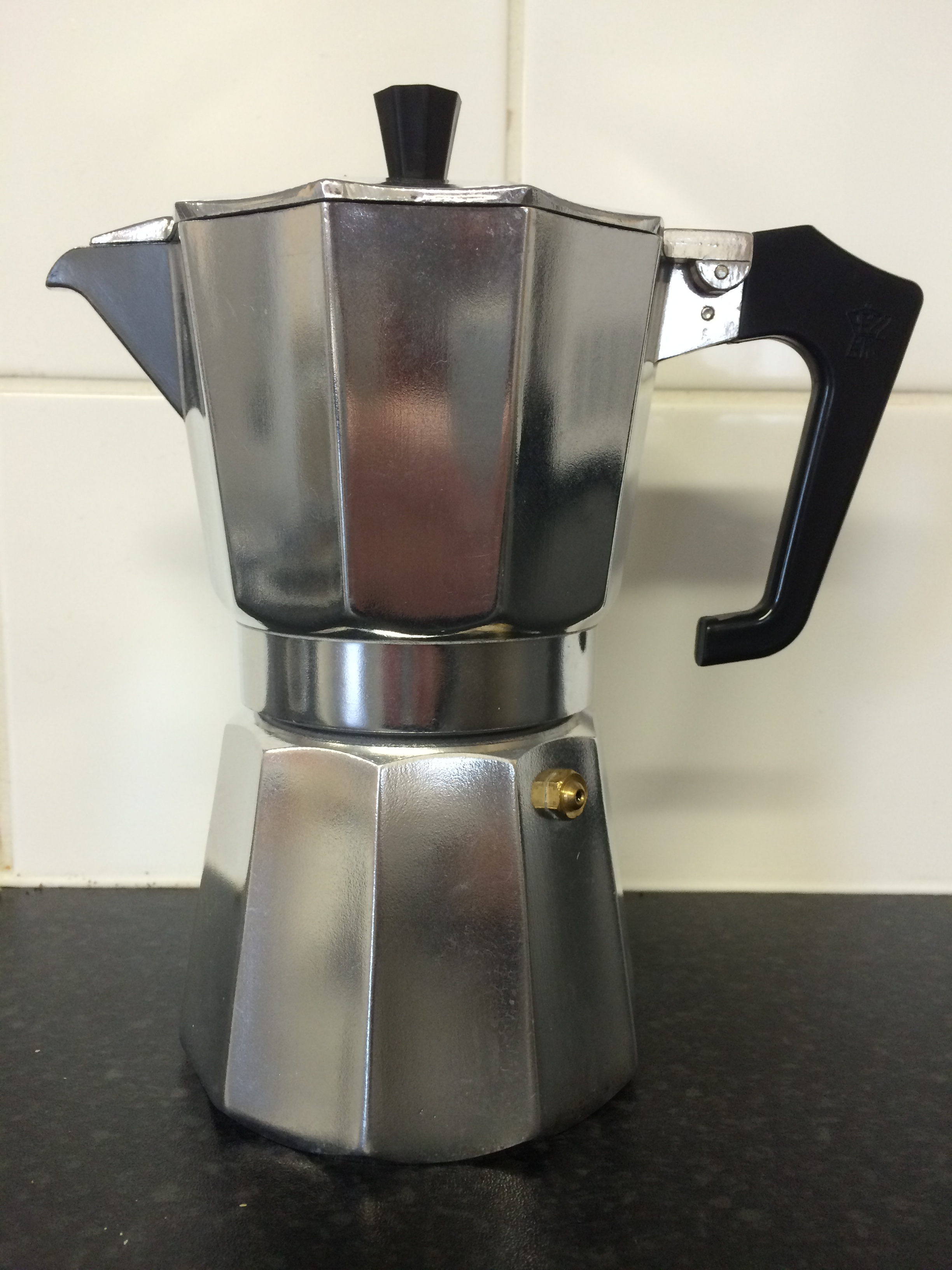 Moka pot